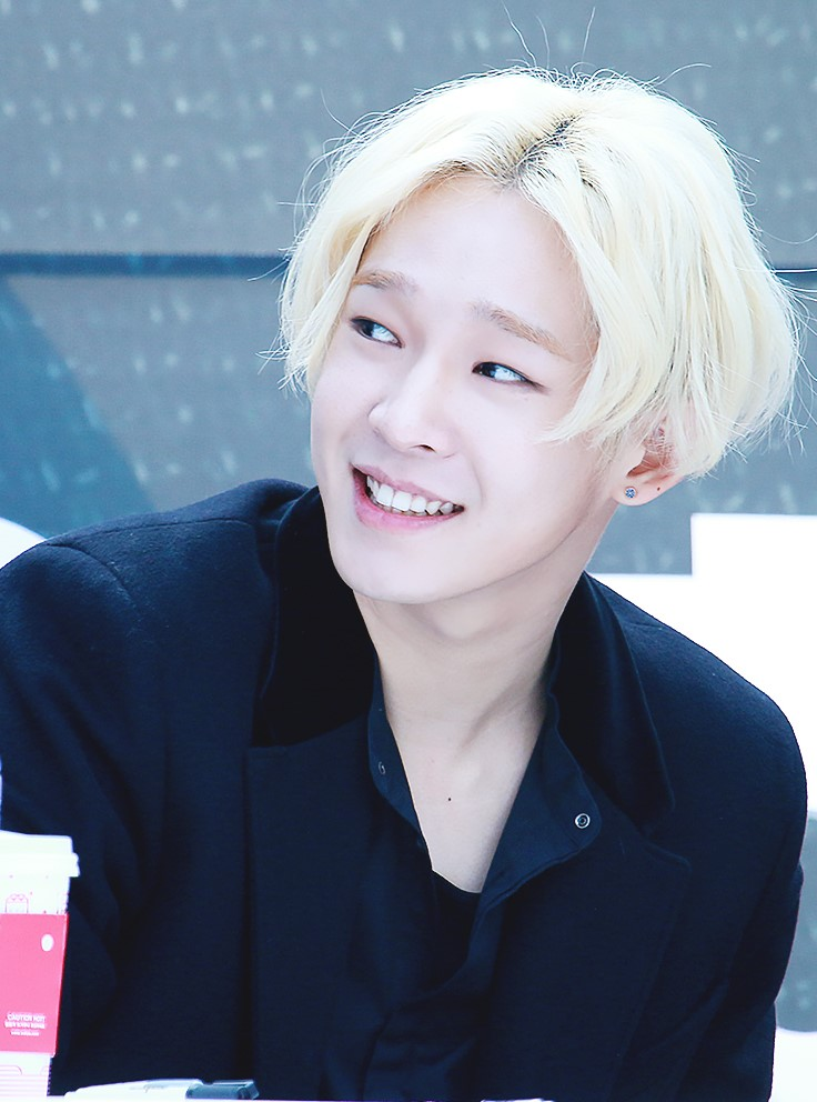 Nam Tae-hyun at a fanmeeting in Sinchon, in February 27, 2016.